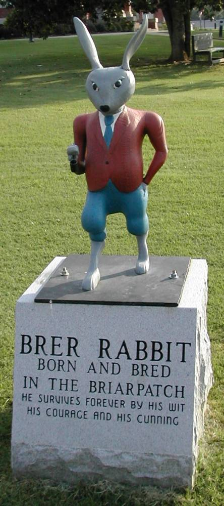 Statue of Brer Rabbit on Courthouse lawn at Eatonton, GA This statue is listed in several "Roadside Attractions" type books and websites, and is always noted as being rather creepy. I can testify that it does, in fact, terrify small children and looks especially sinister at night. Taken 2004-07-18 by mdxi. Released into the Public Domain.